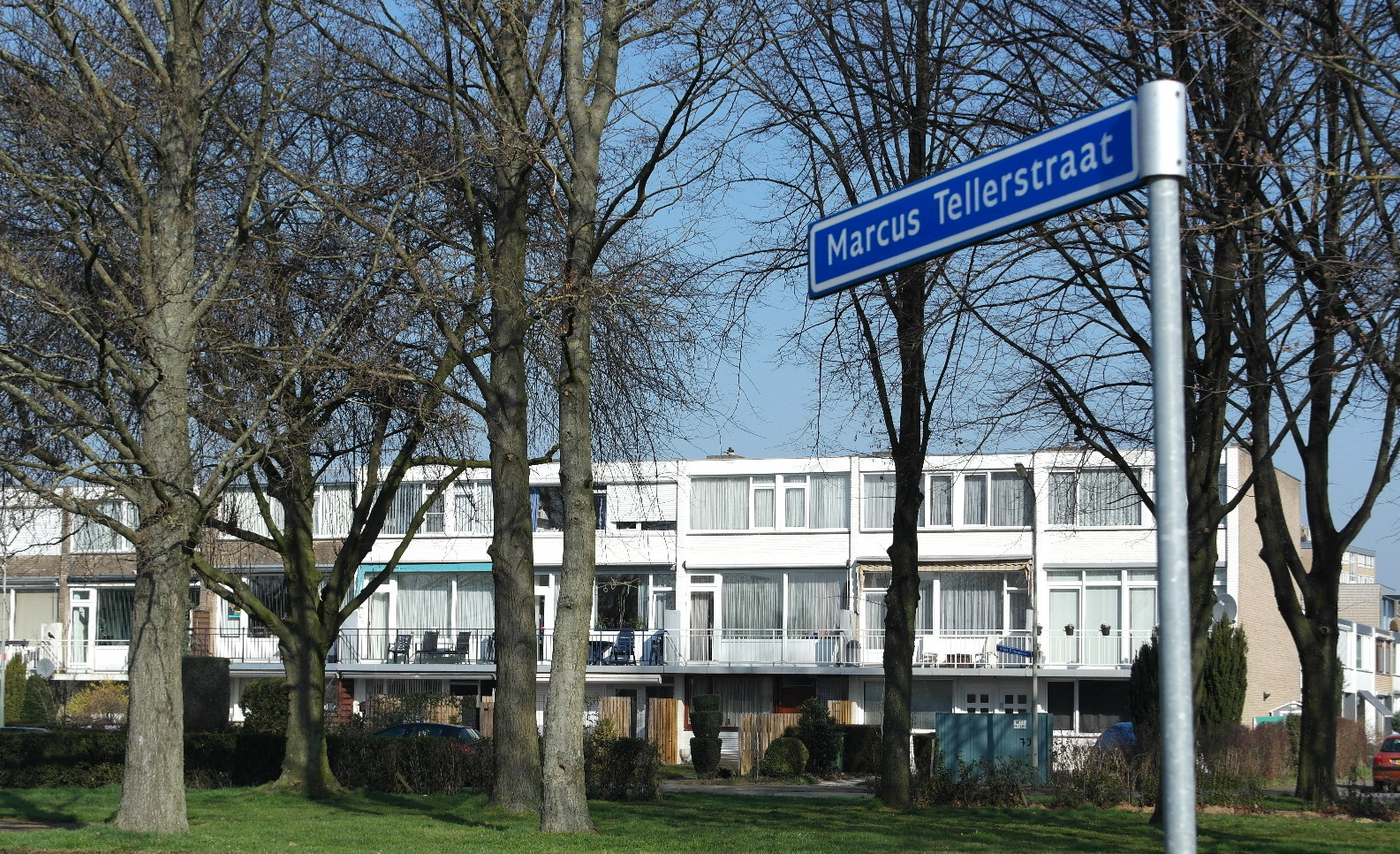 Maastricht, the Netherlands. View of a street in southeastern neighbourhood of Heer.